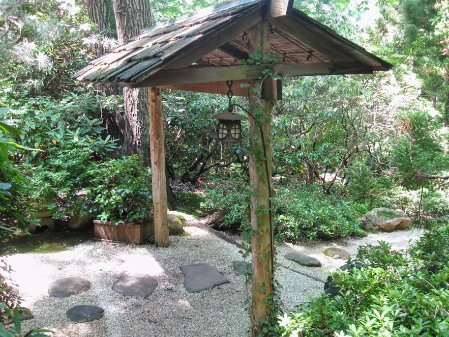 Path in the John P. Humes Japanese Stroll Garden located in Mill Neck, New York